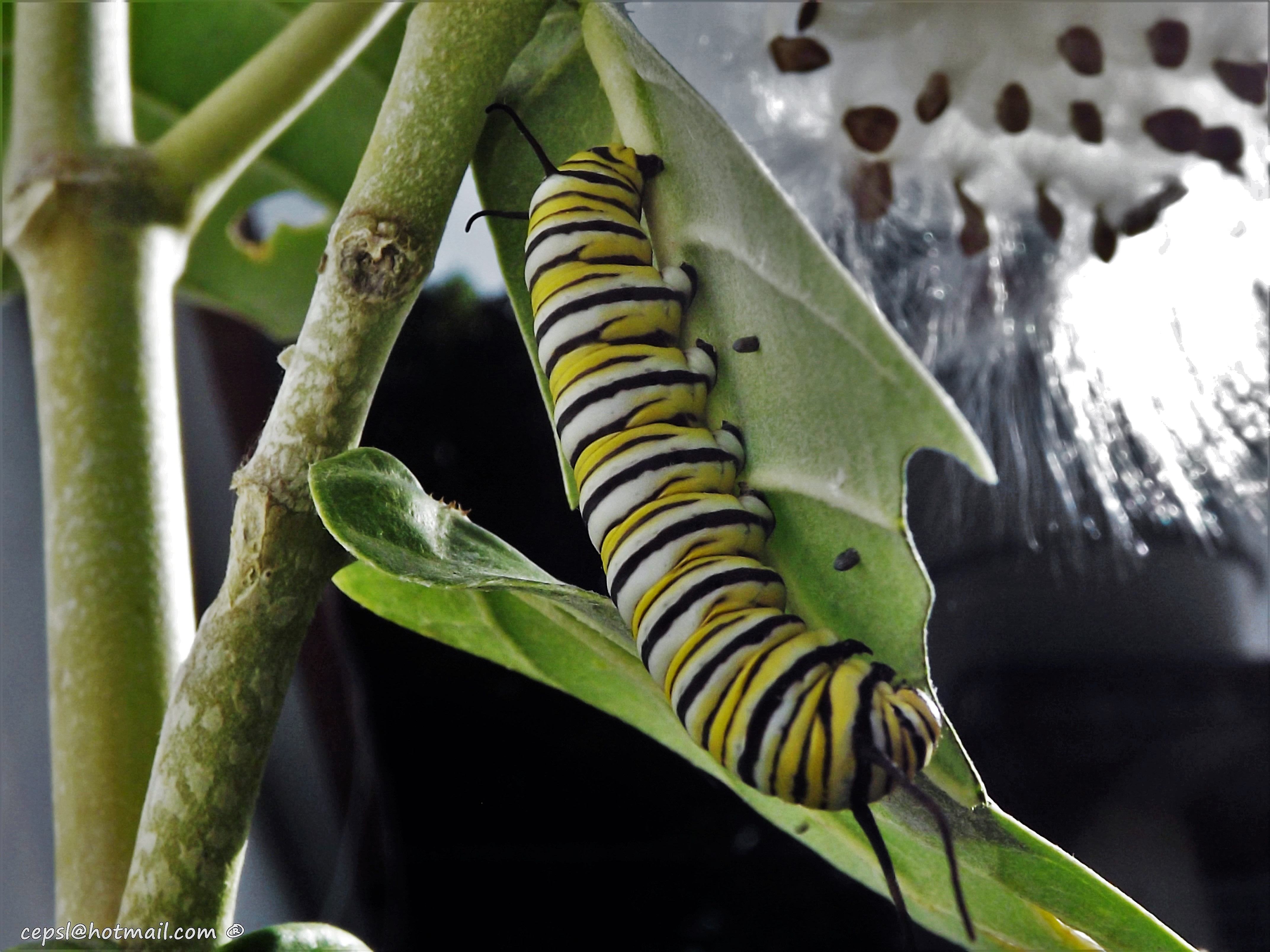 During the growth period the Monarch Butterfly caterpillar feeds basically on the Silk Cotton (Calotropis gigantea) which is the plant where they commonly lay their eggs.